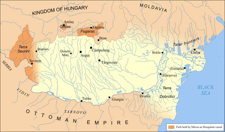 Wallachia cca 1390, according to an internal document of 1387 and the Treaty with Poland of 1390